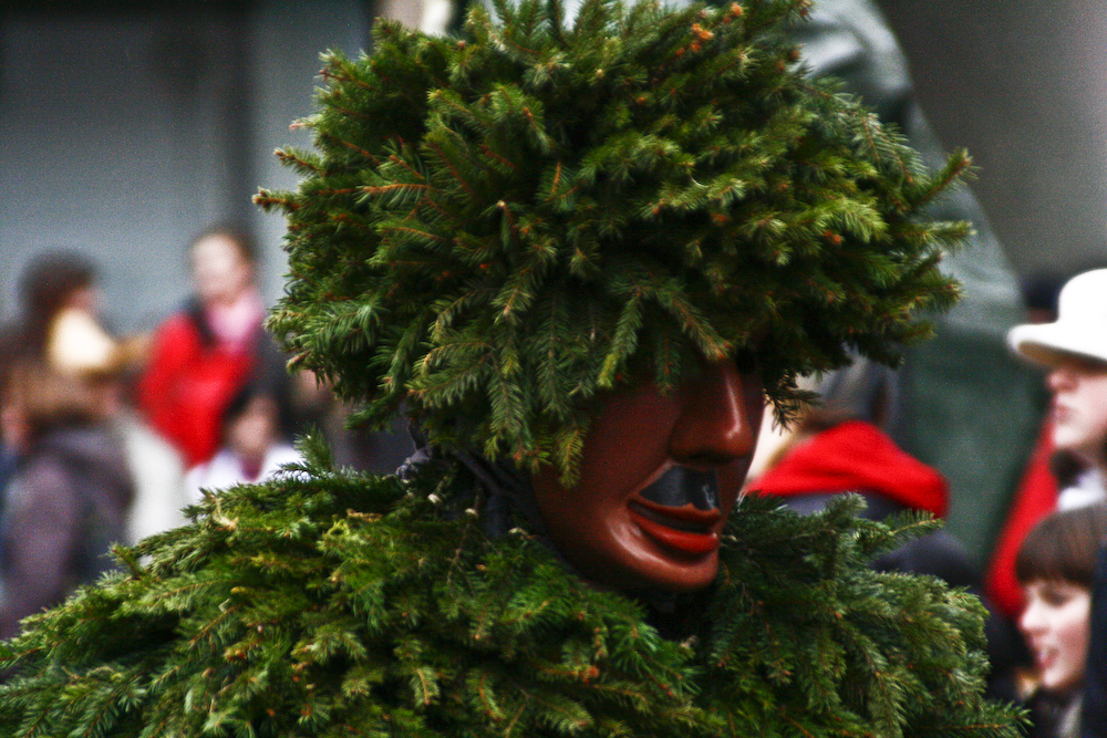 Laufarija Carnival